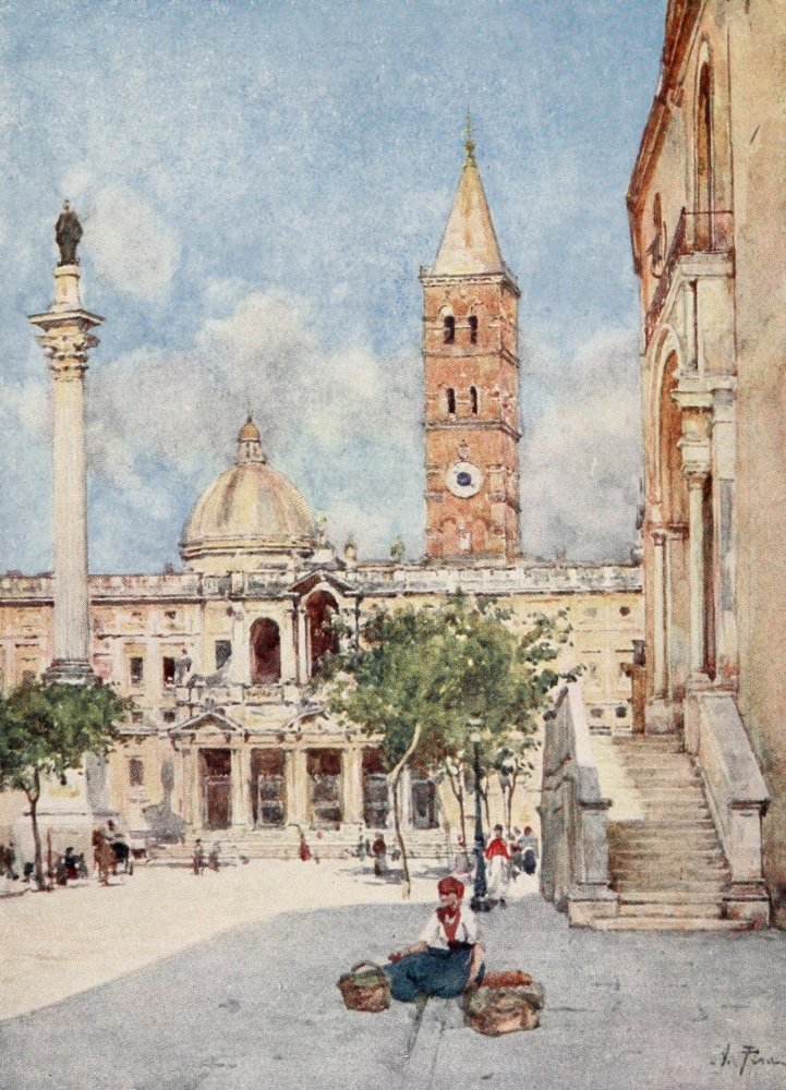 Paintings of Rome by Alberto Pisa (1905)